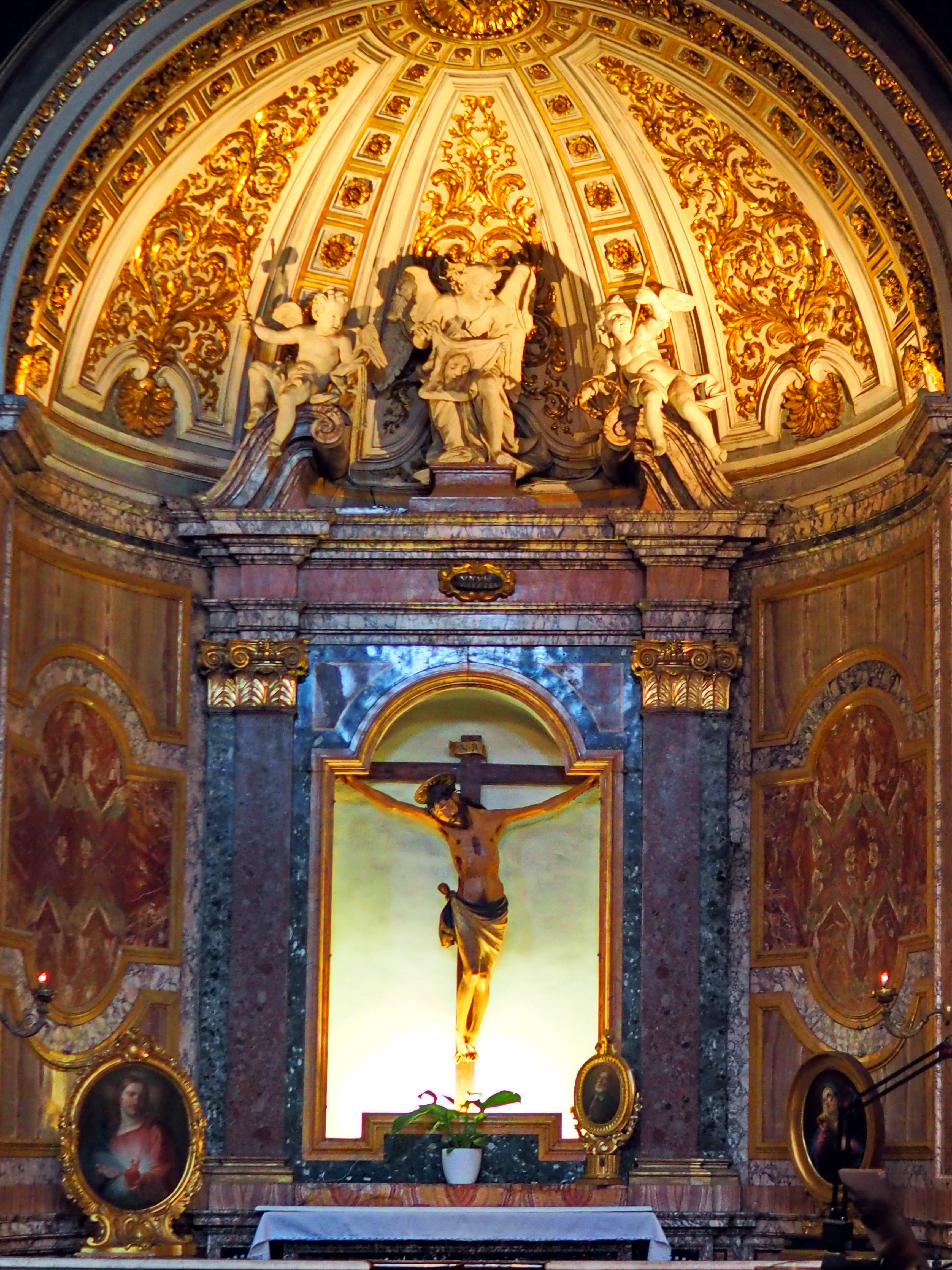 Sant Agostino (Rome); Cappella del crocefisso